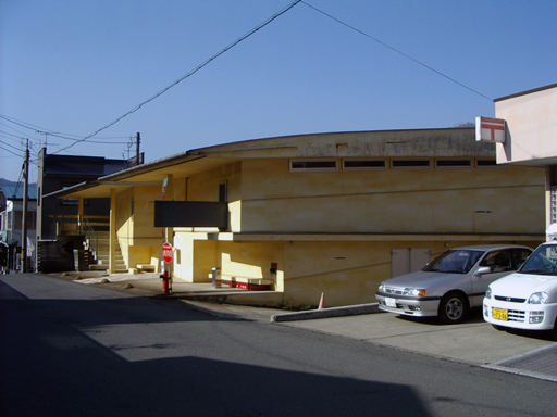 Waseda Zasiki sap at Naruko Onsen. This building was designed by Waseda University Architecture.